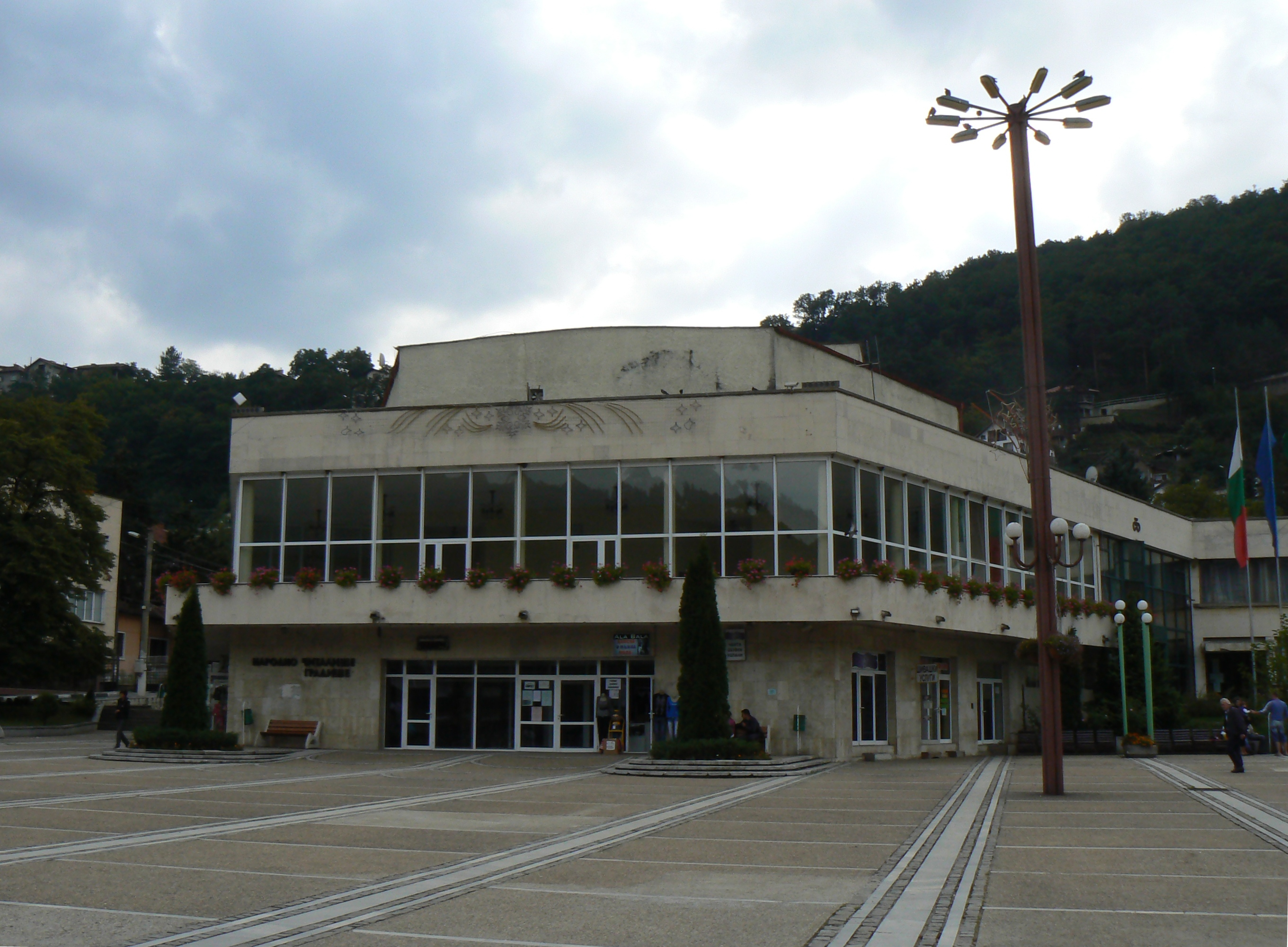 The culture/community centre "Gradishte" in Svoge, Bulgaria